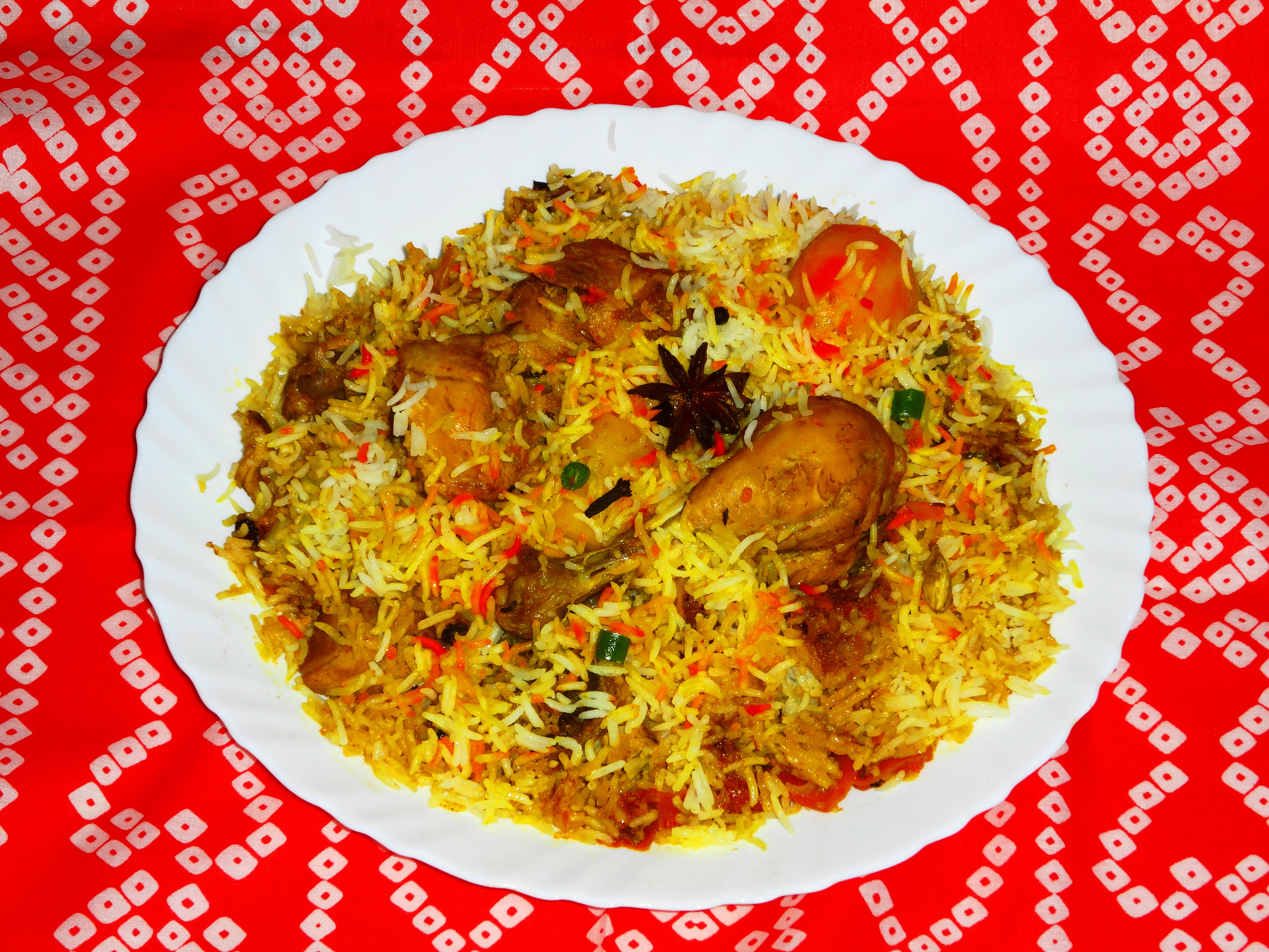 Student Biryani is a most popular brand of Biryani in Karachi